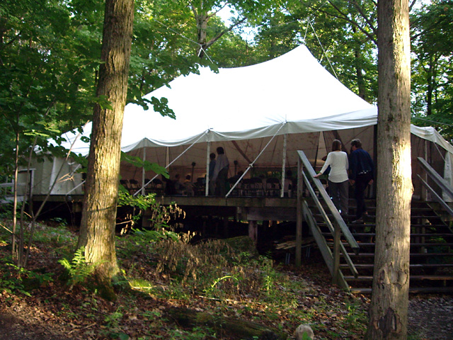 This is the Main Tent at the Mountain Conference Center (also called the Mountain Camp), one of the conference center facilities at the Abode of the Message, a spiritual intentional community in New Lebanon, NY, associated with the Sufi Order International. The sides are made of insect netting, and the tent roof is hung from the surrounding trees. Set on a permanent wooden deck in a mountain top forest, it provides a good compromise between outdoor meditation in nature, and protection from bugs and the weather. During the winter the outdoor event tent is taken down and the deck is covered with a huge blue tarp (apparent on satellite photos).